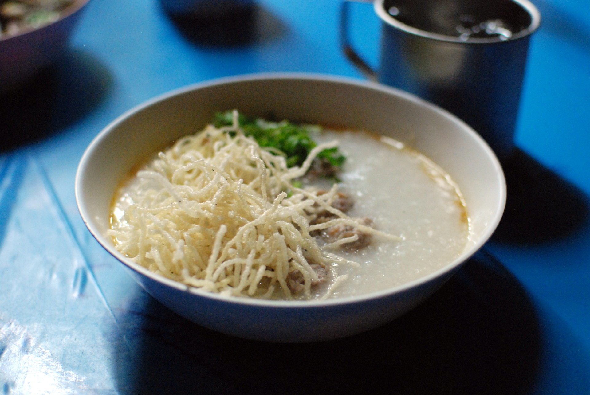 Jok mu sap (Thai script:โจ๊กหมูสับ) is a rice congee with minced pork. It is always served with fresh ginger sliced in to thin strips, chopped spring onions, and with some light soy sauce. The Thai version of this Chinese dish often also contains deep-fried rice vermicelli (mi krop), as is the case with the version shown.